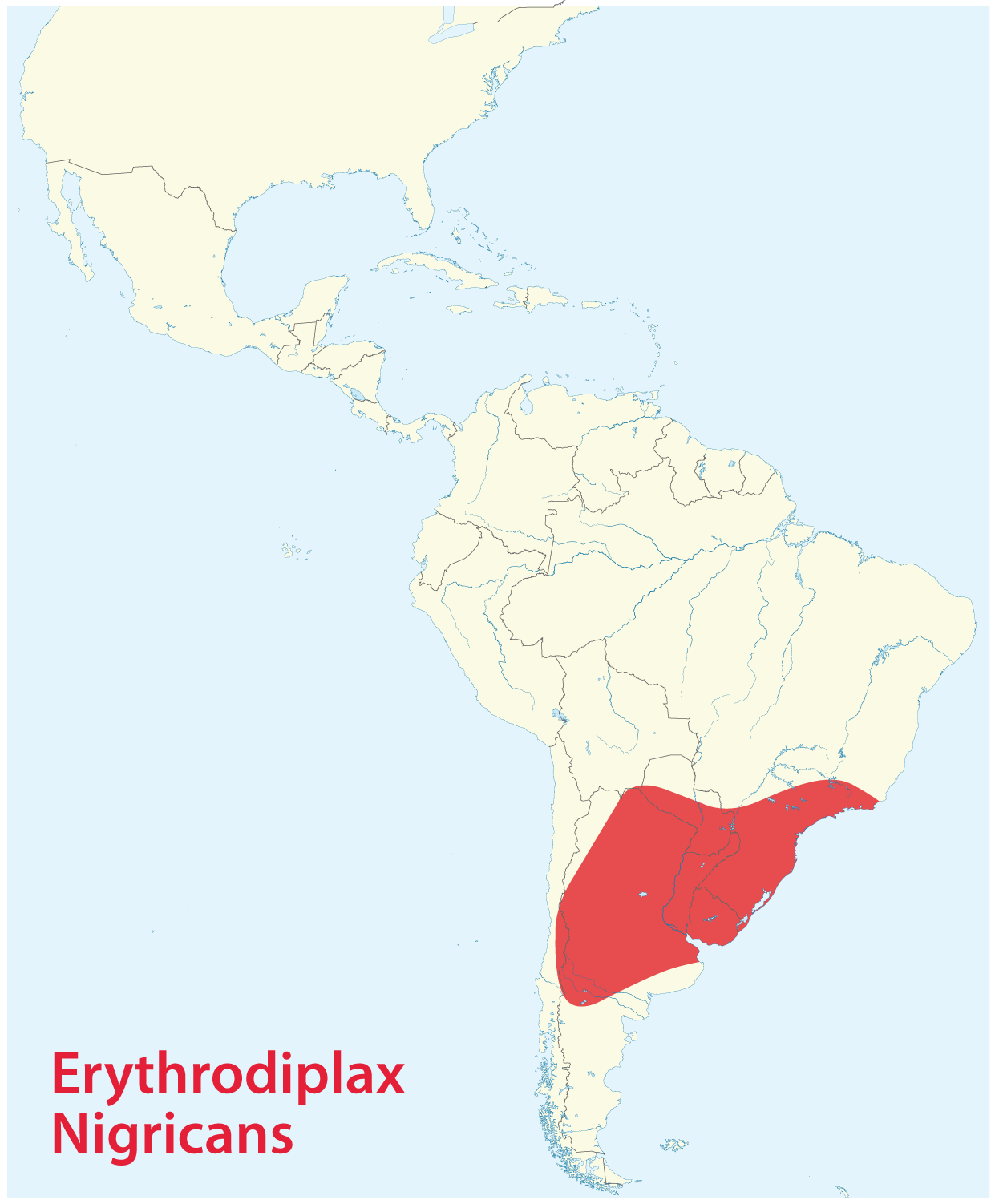 Distribution map of Erythrodiplax Nigricans